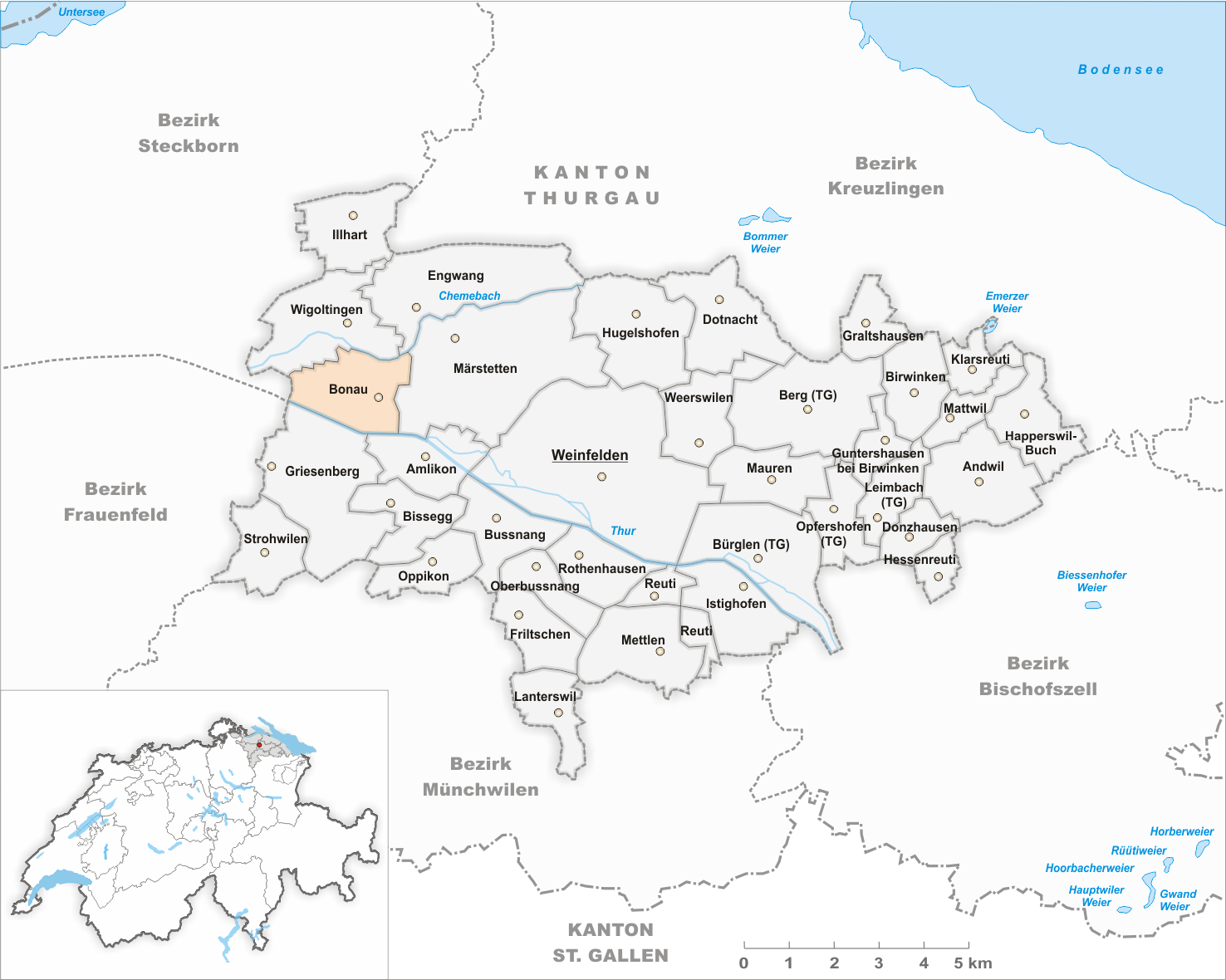 Municipality Bonau